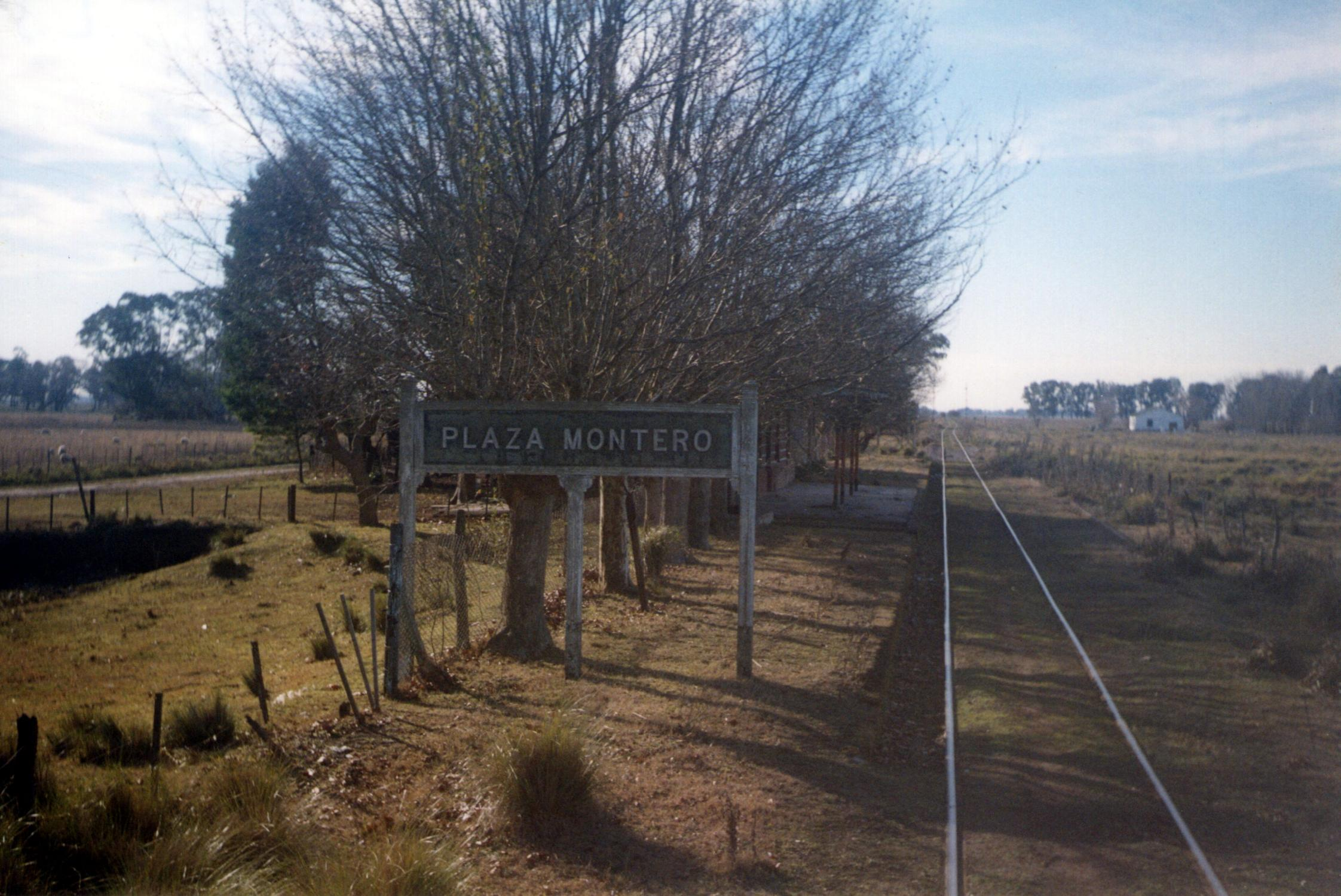 Plaza Montero station. View from a train.